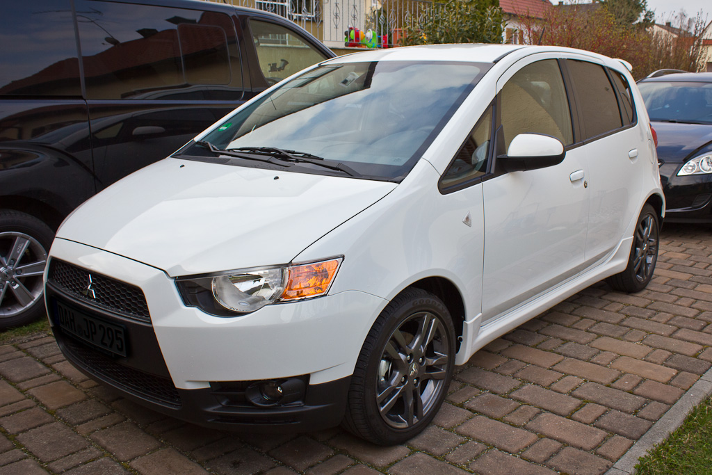 Mitsubishi Colt 1.3 Polar.